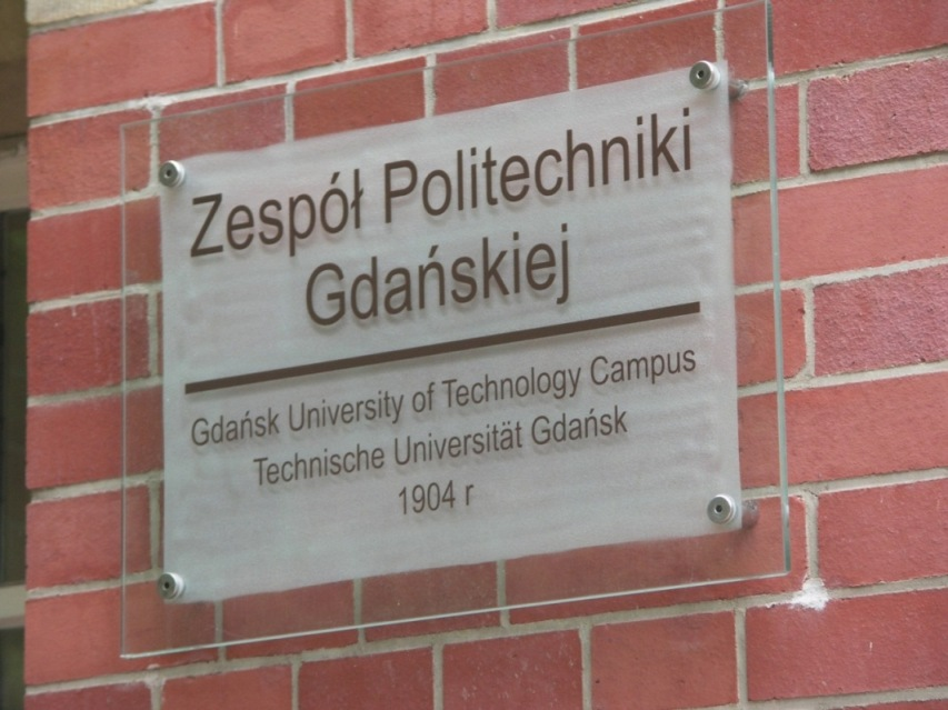 An element of the City Information System in Gdańsk (district Wrzeszcz).